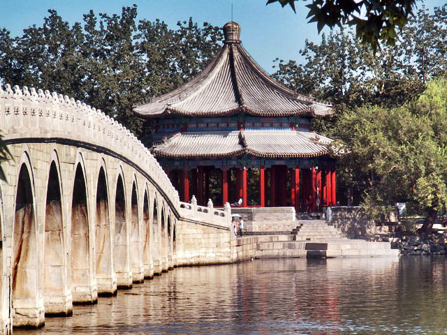 Summer Palace